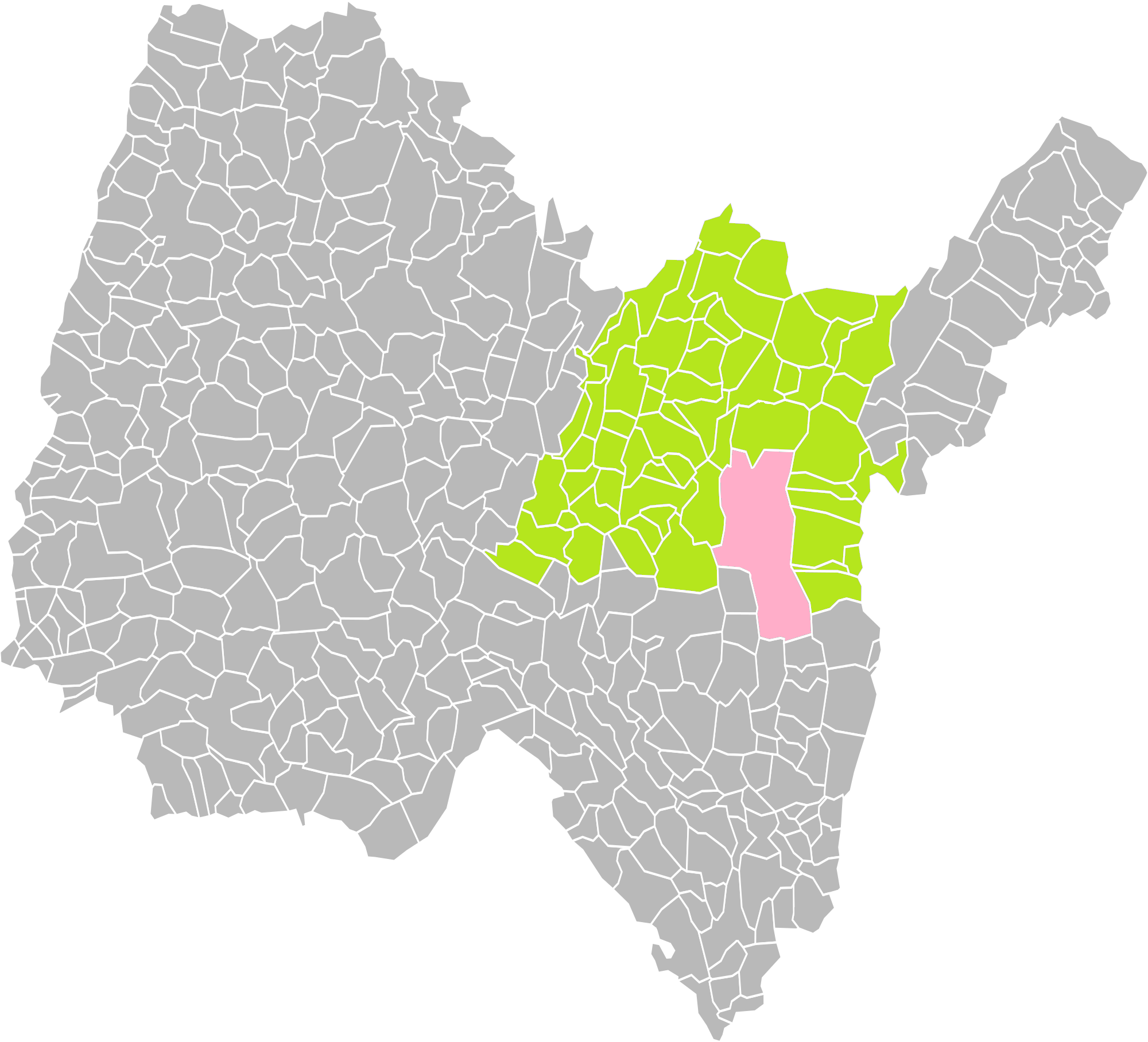 Location of the commune of Haut-Valromey in the arrondissement of Nantua (Ain)